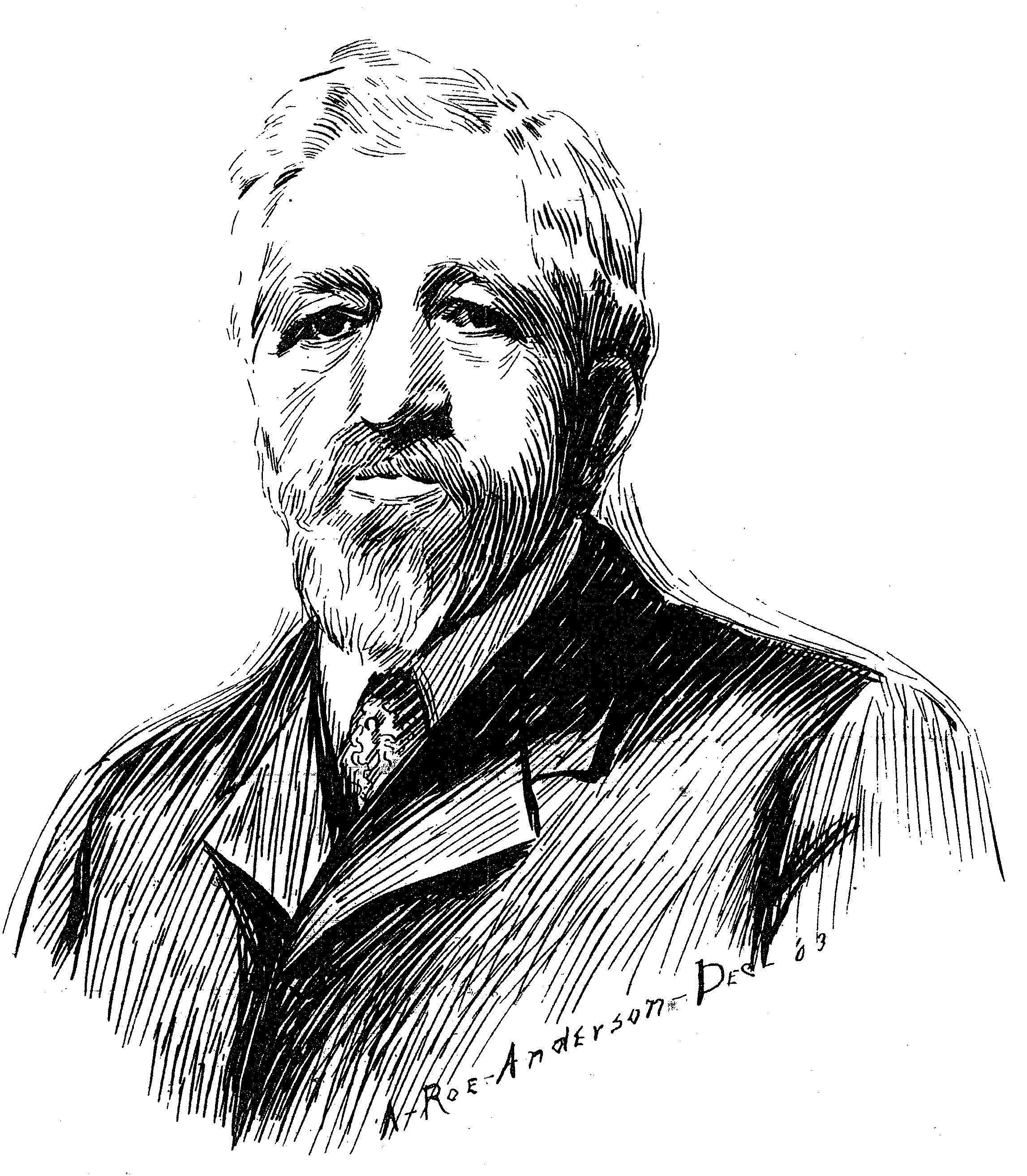 Portrait of Seattle banker Jacob Furth.